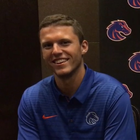 Brett Rypien, quarterback of the Boise State Broncos football team, at the 2017 Mountain West Conference Media Days in the The Cosmopolitan in Las Vegas.